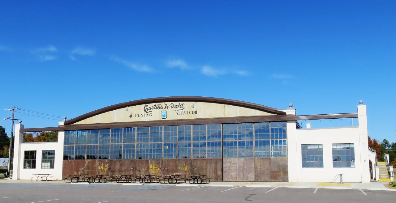 Curtiss Wright hanger, built in 1929 and restored in 2018, in Columbia SC at Jim Hamilton-L.B. Owens Airport. Listed in the National Registry of Historic Places in 1998.